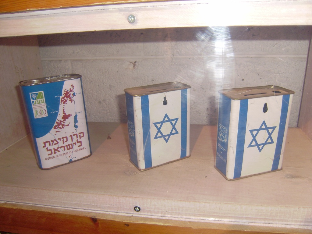 Boxes Fund, Settlements in Israel